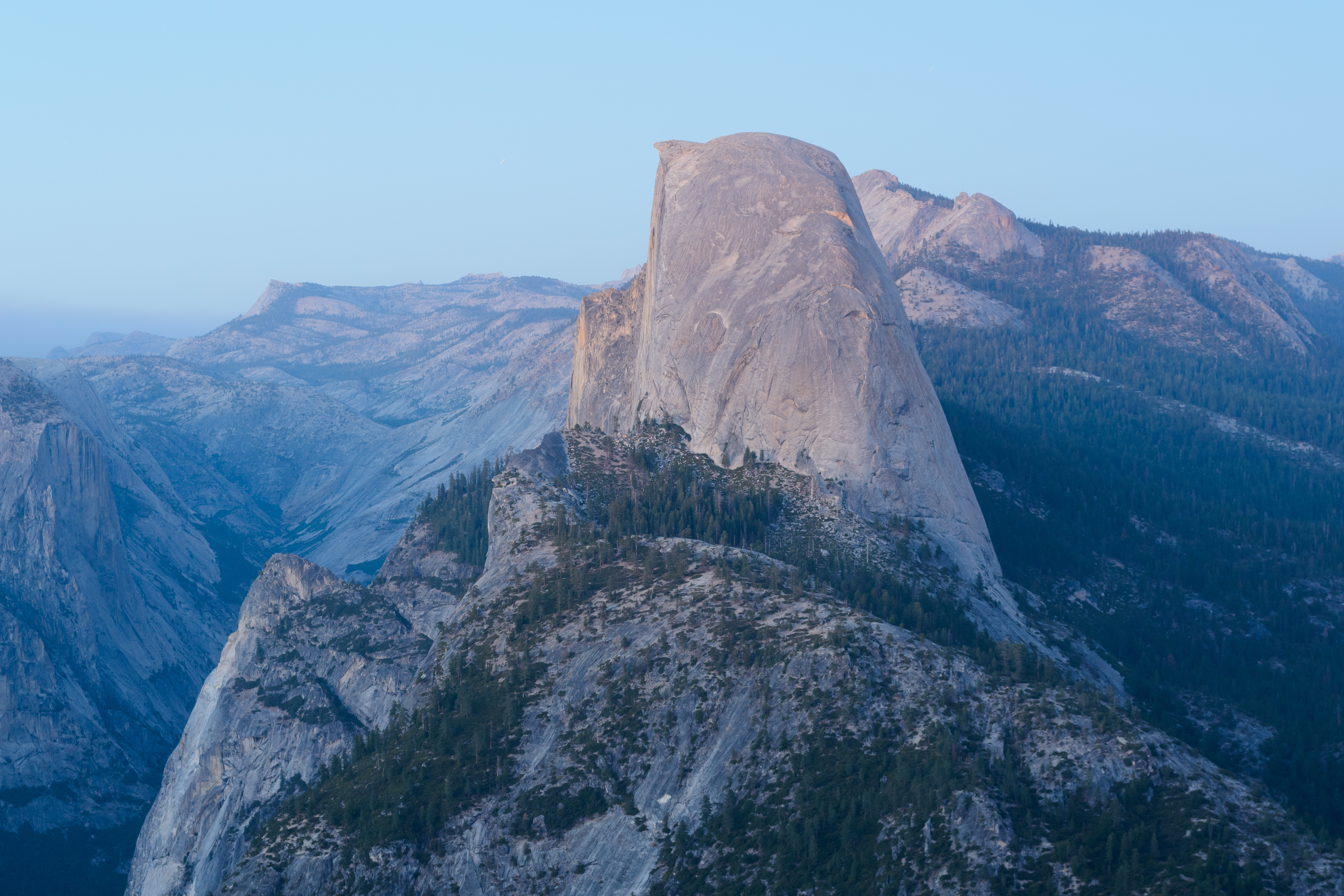 View of Half Dome from Washburn Point, Yosemite National Park.